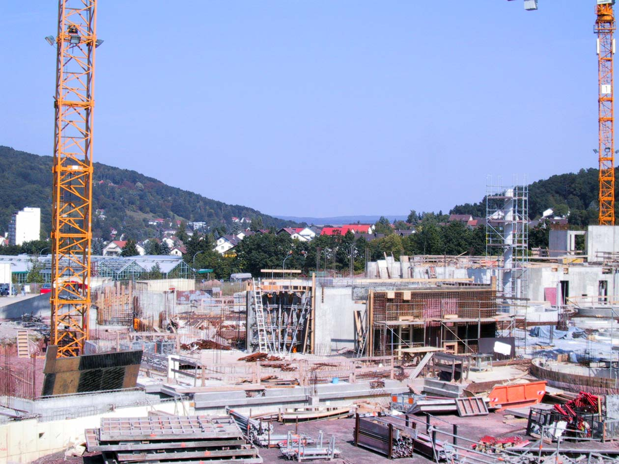 KISSSALIS thermal bath at Bad Kissingen (Germany)